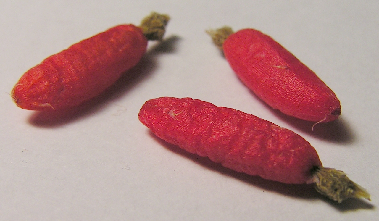 The fruits of Mammillaria prolifera (enlarged).